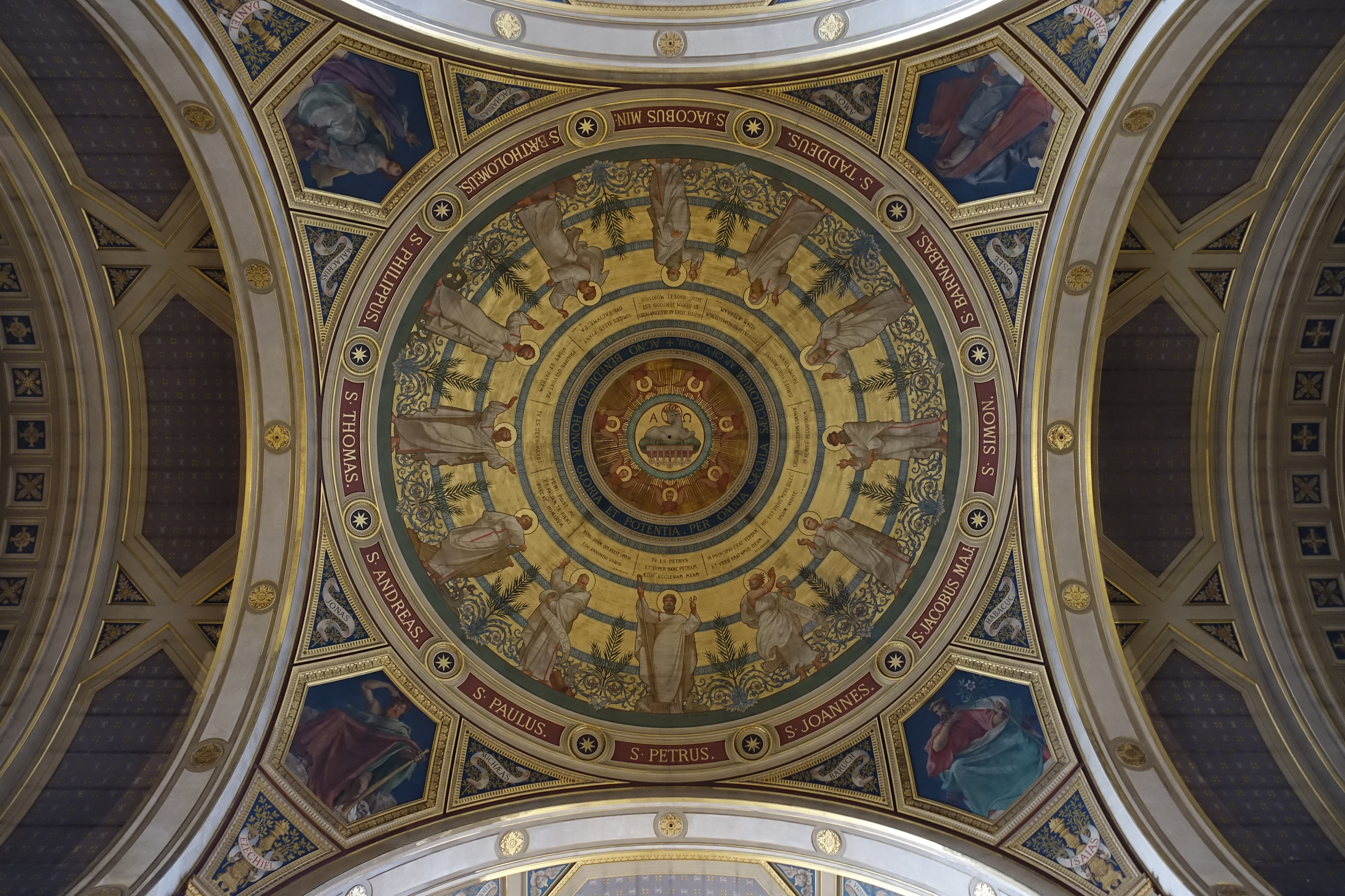 Église Saint-François-Xavier, a Roman Catholic church and parish in the 7th arrondissement of Paris dedicated to Francis Xavier. Address: 39 Boulevard des Invalides, 75007 Paris, France.